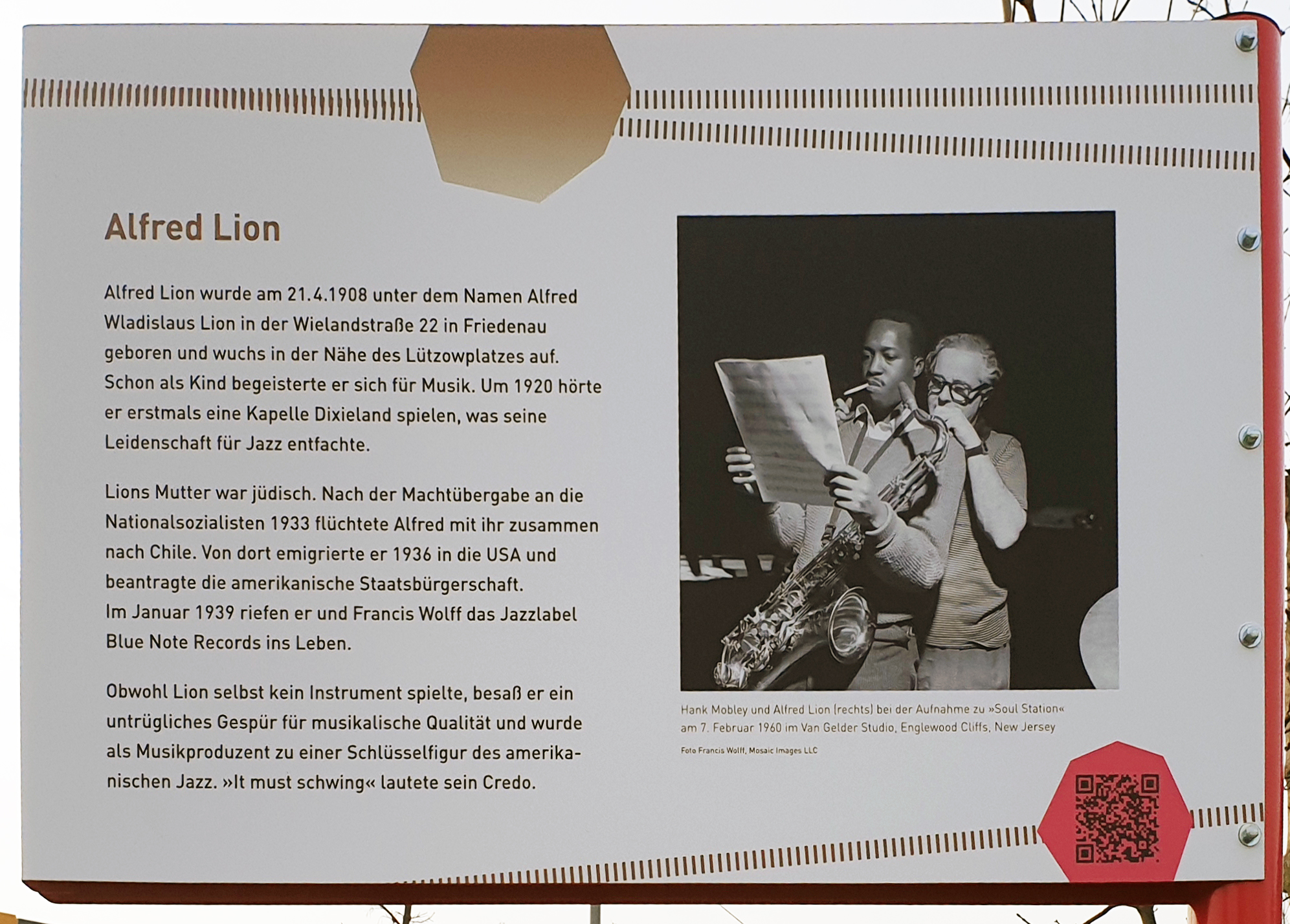 Memorial plaque, Alfred Lion, Alfred-Lion-Steg, Berlin-Schöneberg, Deutschland